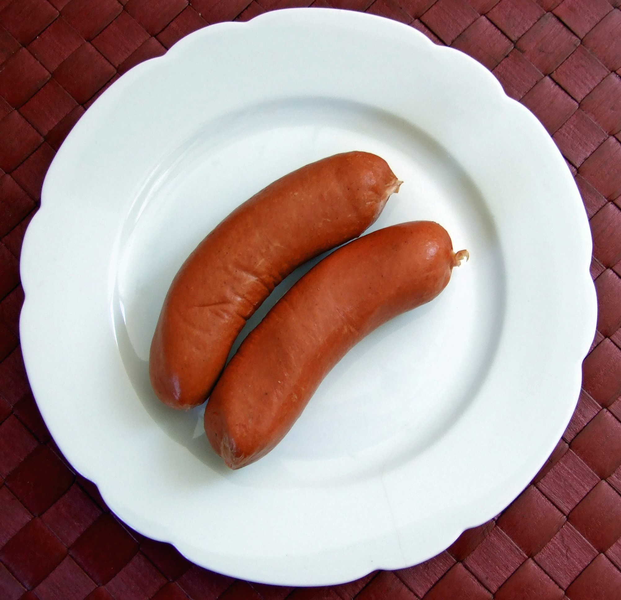 Frankfurter Rindswurst, beef sausages (from Gref-Voelsing (butcher's shop) - its inventor in 1894, for his jewish customers)